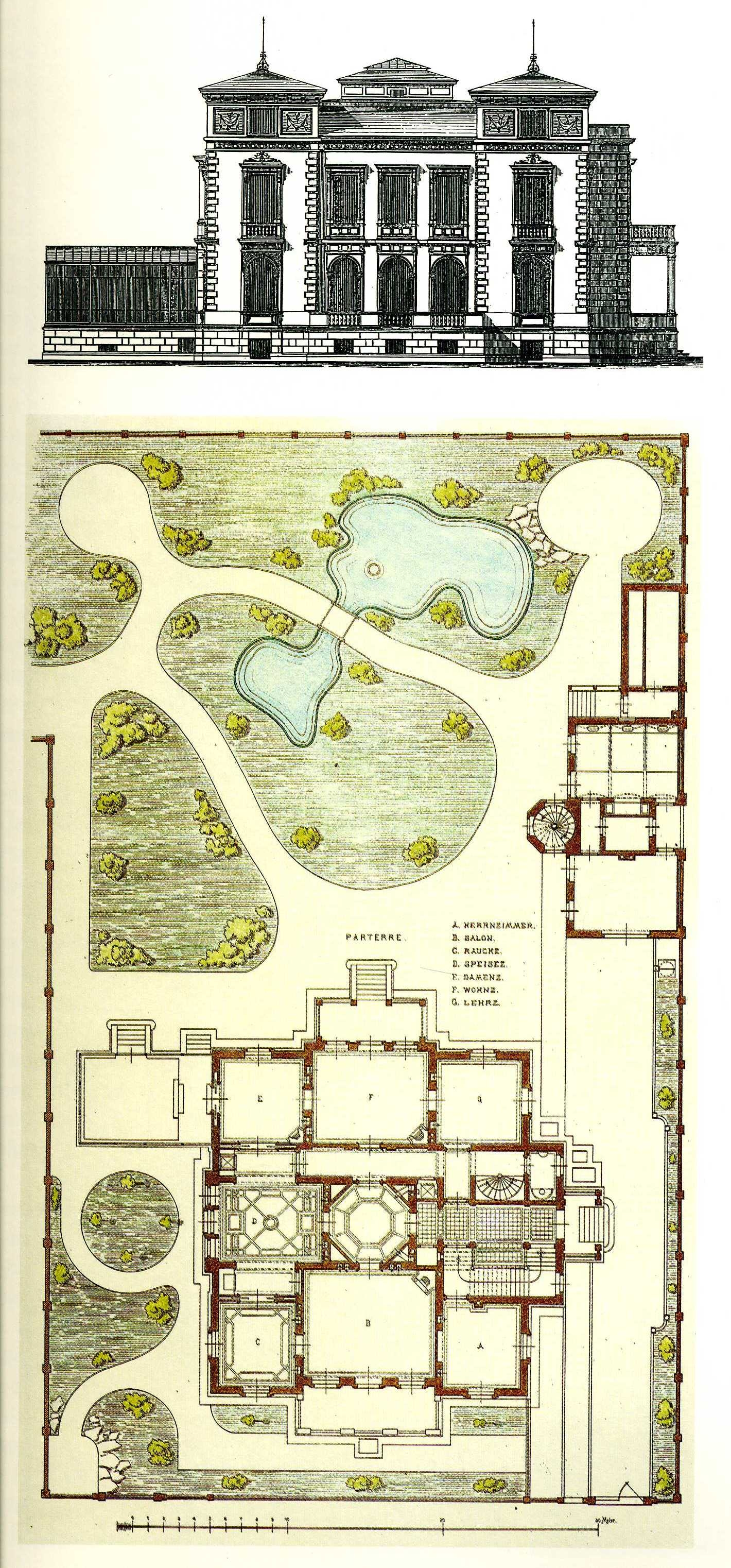 Dresden Haus Wiener Straße 44 (neue Nr. 2). Zeichnung von Hermann August Richter (1842-1911)